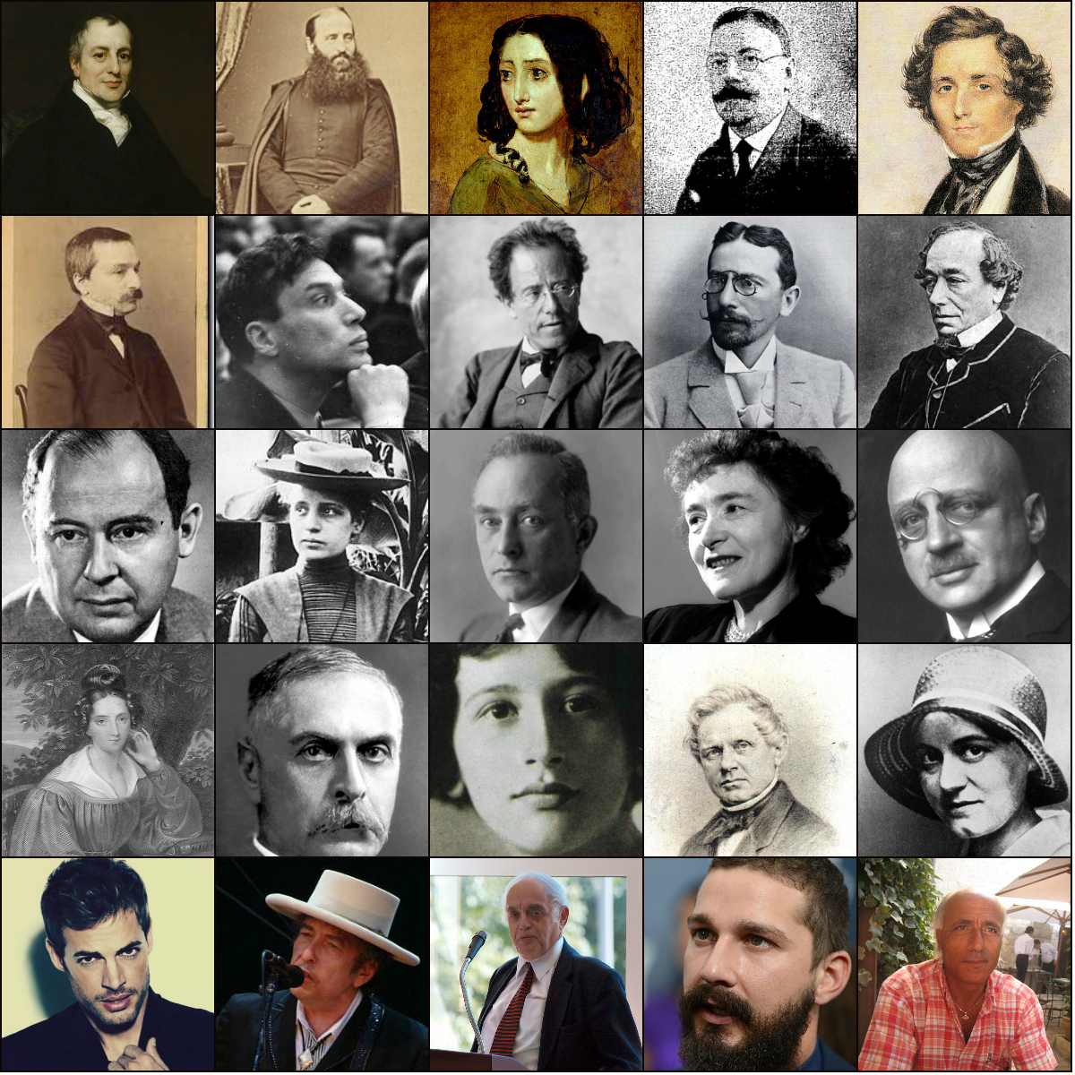 Jewish convert to Christianity collage David Ricardo Alphonse Ratisbonne Rachel Félix Israel Zolli Felix Mendelssohn Leopold Kronecker Siegbert Tarrasch Benjamin Disraeli John von Neumann Lise Meitner Max Born Gerty Cori Fritz Haber Rahel Varnhagen Simone Weil Heinrich Gustav Magnus Edith Stein Bob Dylan Robert Novak Shia LaBeouf Mordechai Vanunu